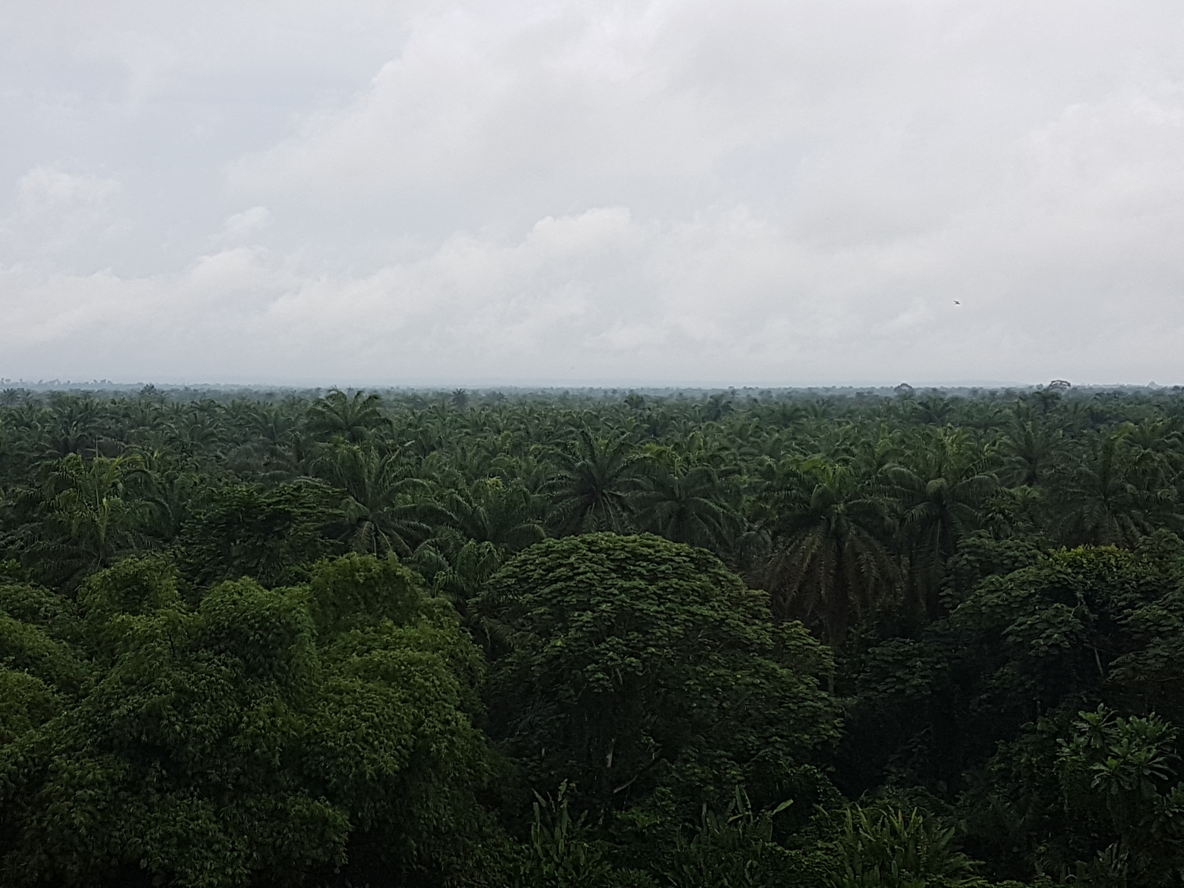 View from the Meridien Akwa Ibom golf course, June 2017.